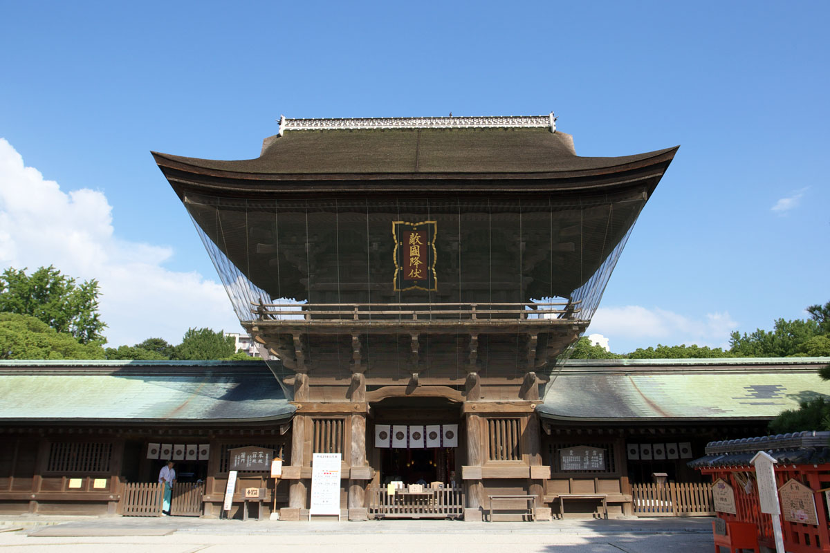 Hakozaki-gu (shrine), in Higashi-ku, Fukuoka city, Japan.